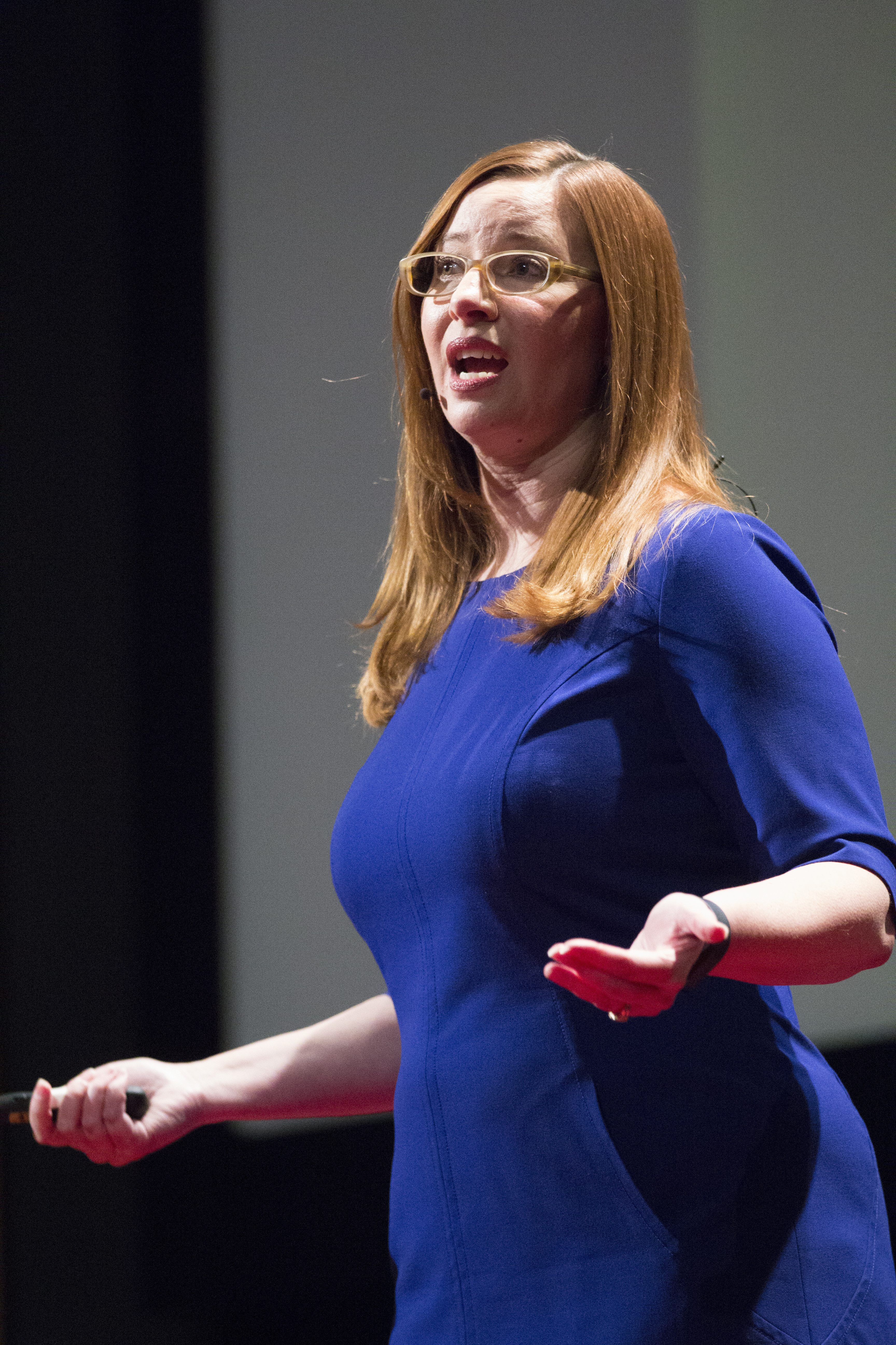 TEDx__TEDxUniversityofNevada-3-0252